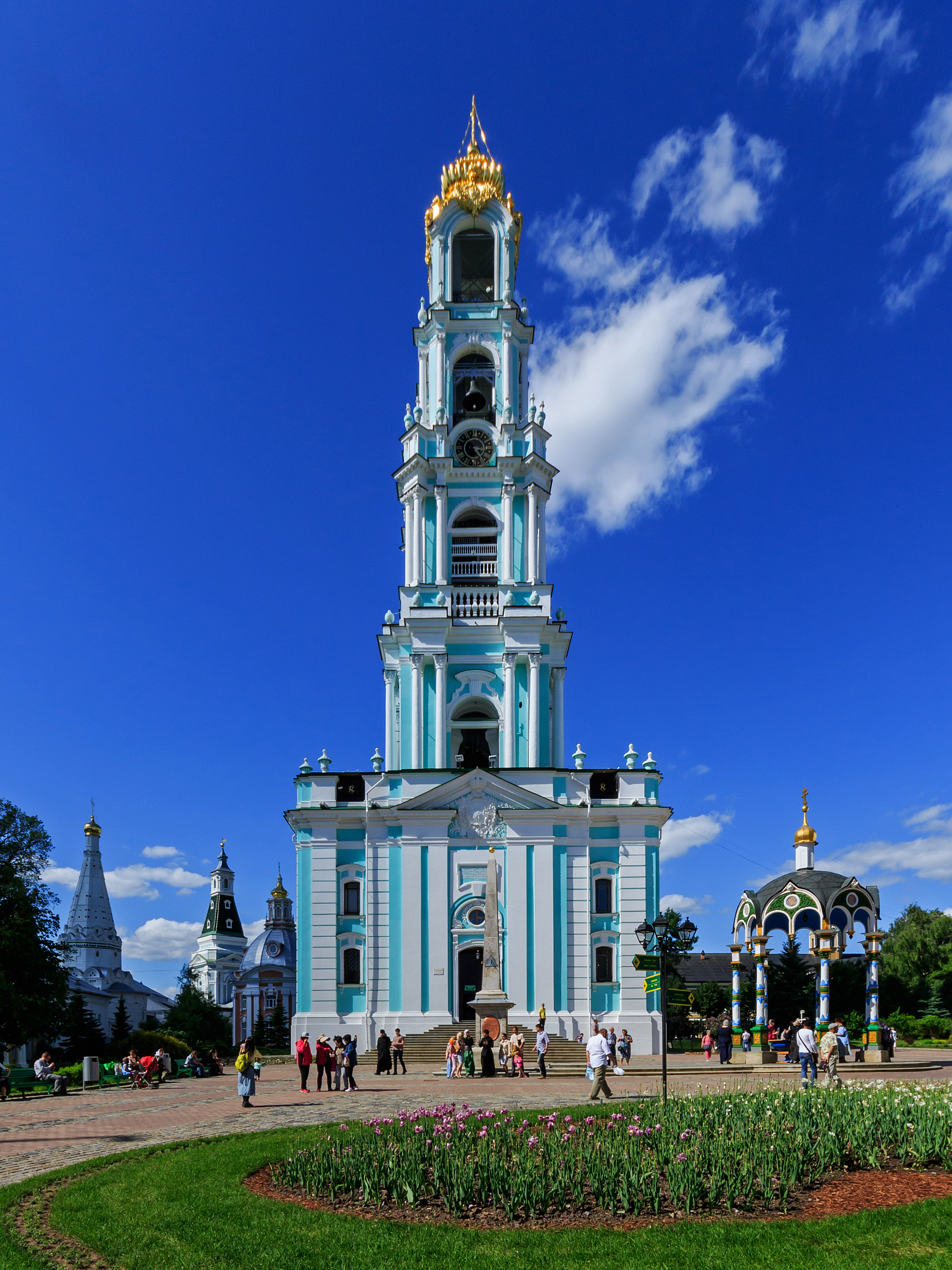 Trinity Lavra of St. Sergius in Sergiev Posad, Moscow Oblast, Russia: the bell tower